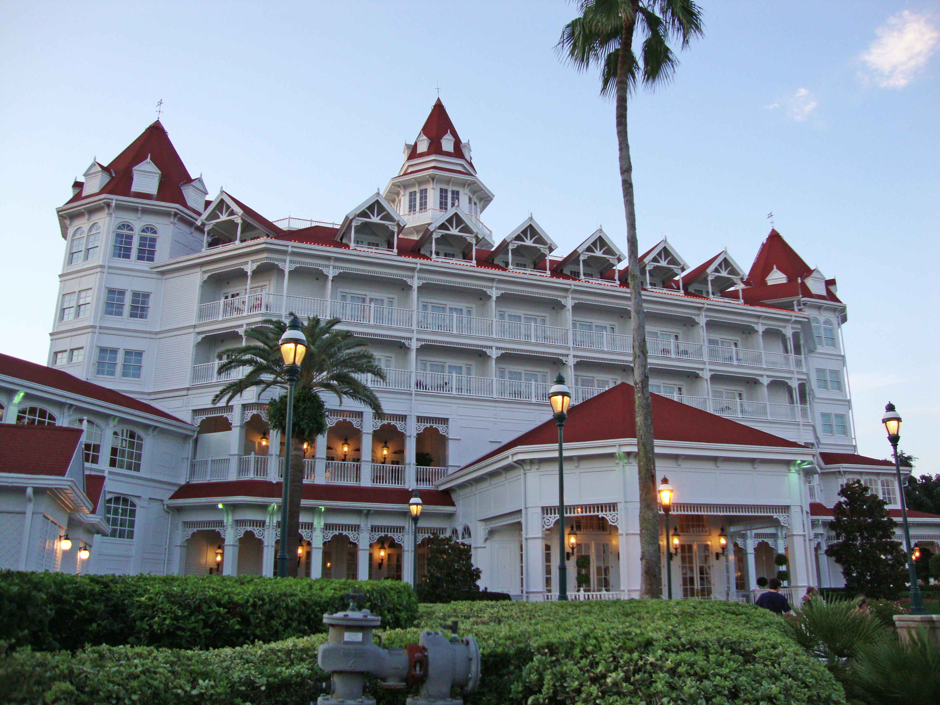 Main Building of Disney's Grand Floridian Resort & Spa